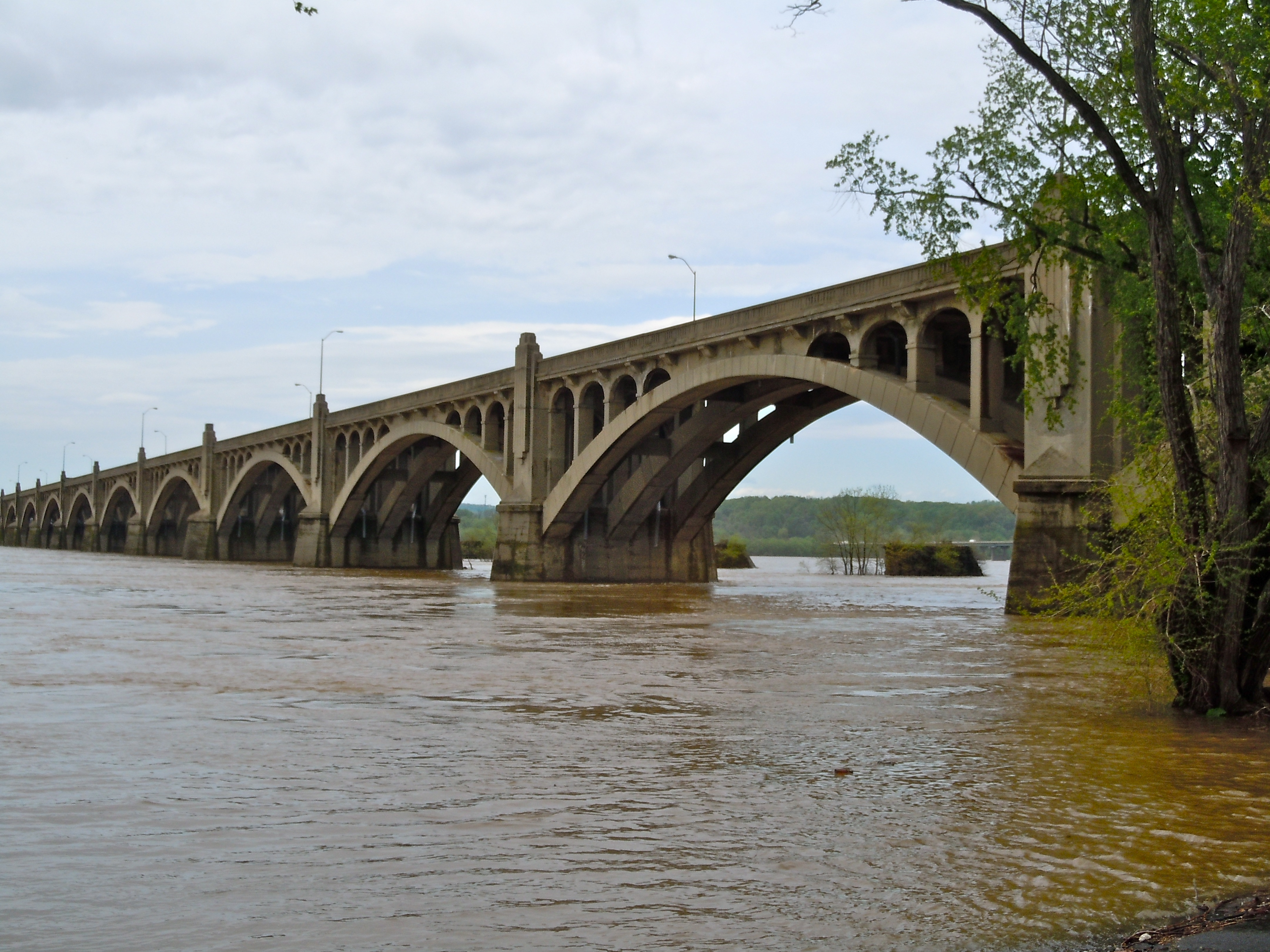 Old Columbia-Wrightsville Bridge on the NRHP since June 22, 1988. On Legislative Route 128 (Old Lincoln Highway) over the Susquehanna River and a railroad, in Columbia (Lancaster County), Pennsylvania and extends into Wrightsville, York County, PA